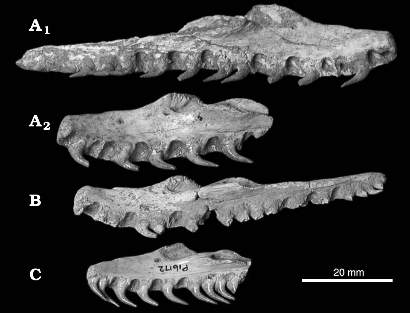 Maxillae and maxillary fragments of the large extinct Australian snake Wonambi naracoortensis in medioventral view. A, South Australian Museum (SAM) P30178A left; B, same specimen right; C, SAM P30178B (right); C, SAM P16172 (right).